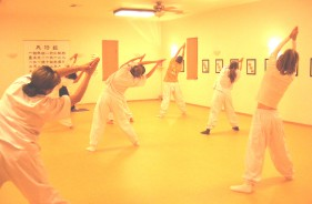 People practicing Dahn yoga in a Dahn Center.